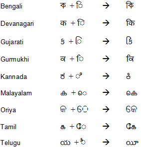 Created by me. No rights reserved.